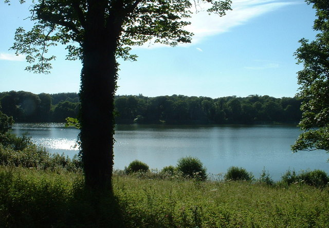 The White Loch of Myrton. Looking north west.